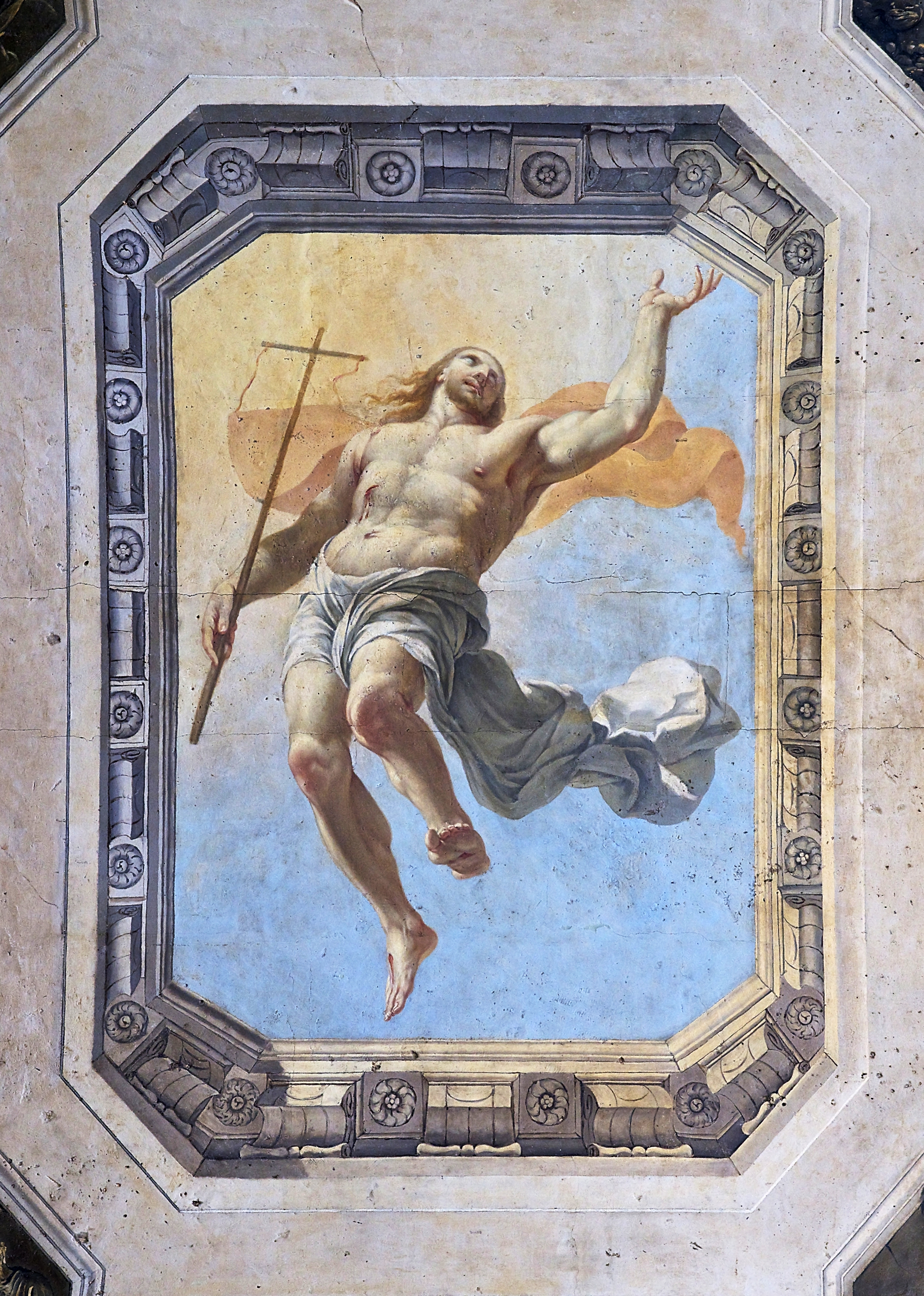 Central motive of the fresco vault by Michel Corneille the Elder (1601-1664) in Church Saint-Nicolas-des-Champs in Paris. Restoration of 2010/2011